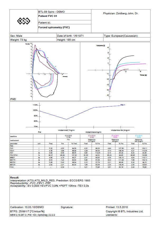 Example of a modern PC based spirometer printout.